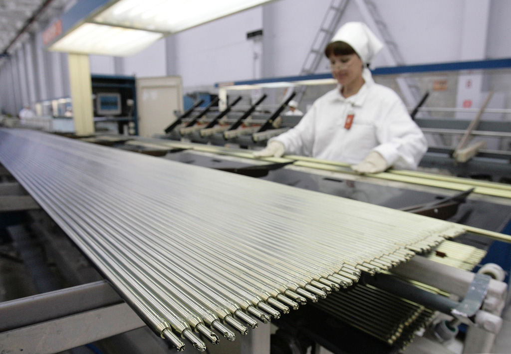 “The Novosibirsk Chemical Concentrate Plant”. Controlling the quality of fuel elements for NPPs, Novosibirsk Chemical Concentrate Plant.